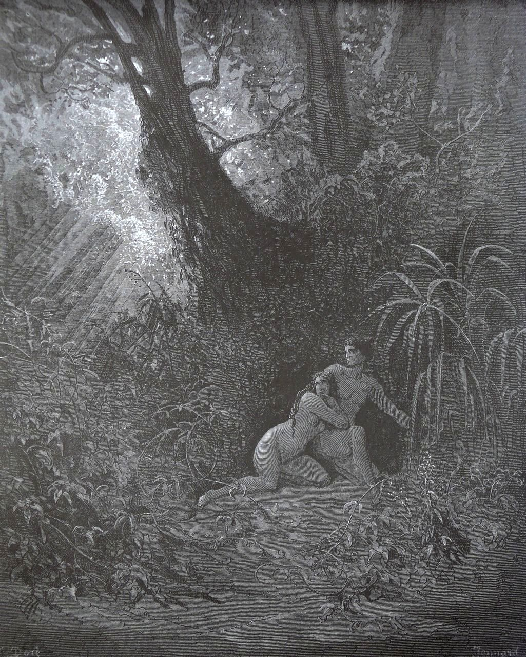 Illustration for John Milton’s “Paradise Lost“ by Gustave Doré